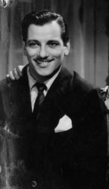 Hugo Chemin- actor